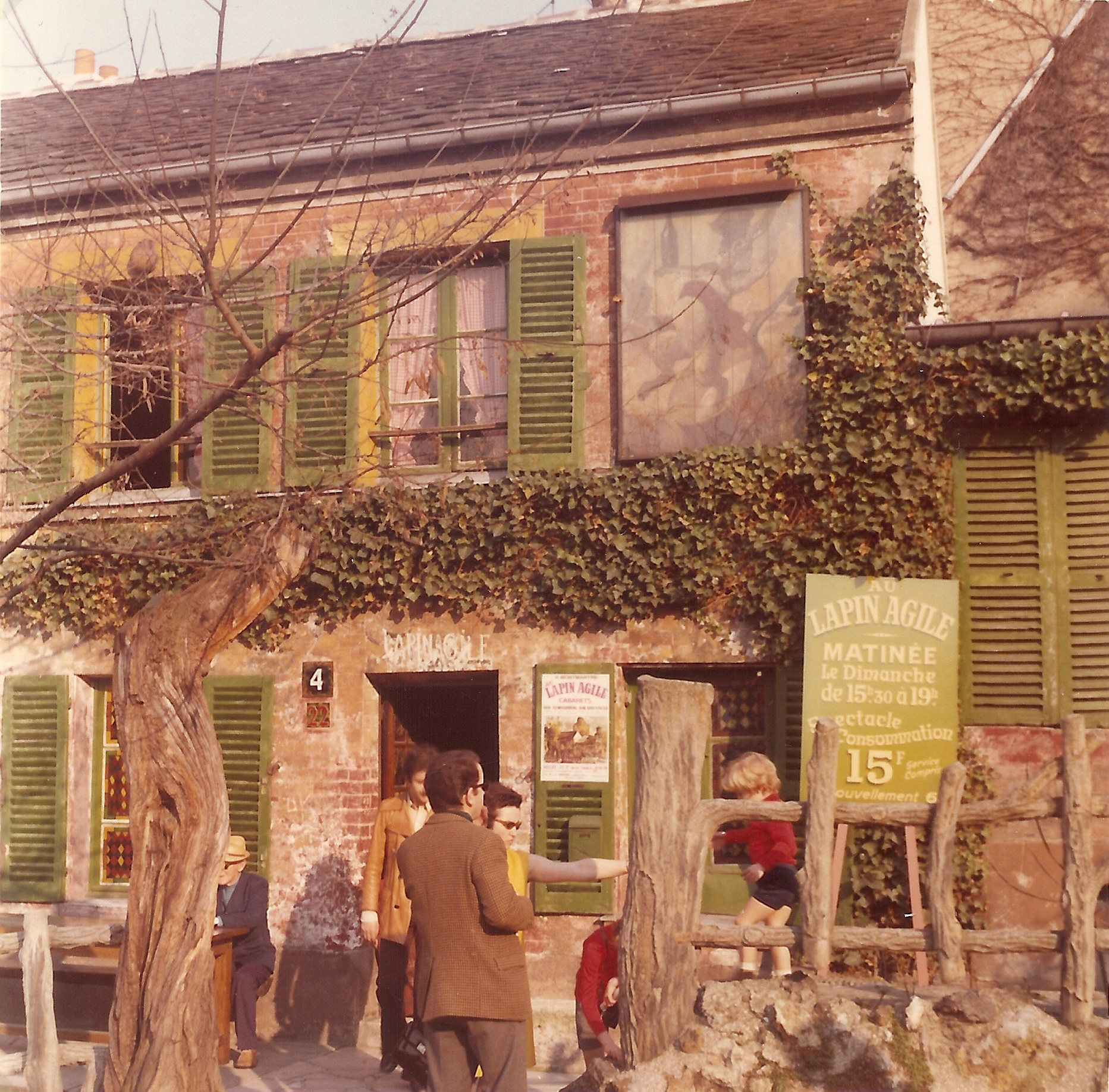 Cabaret Lapin Agile in Montmartre (Paris, 18th arrond., France).